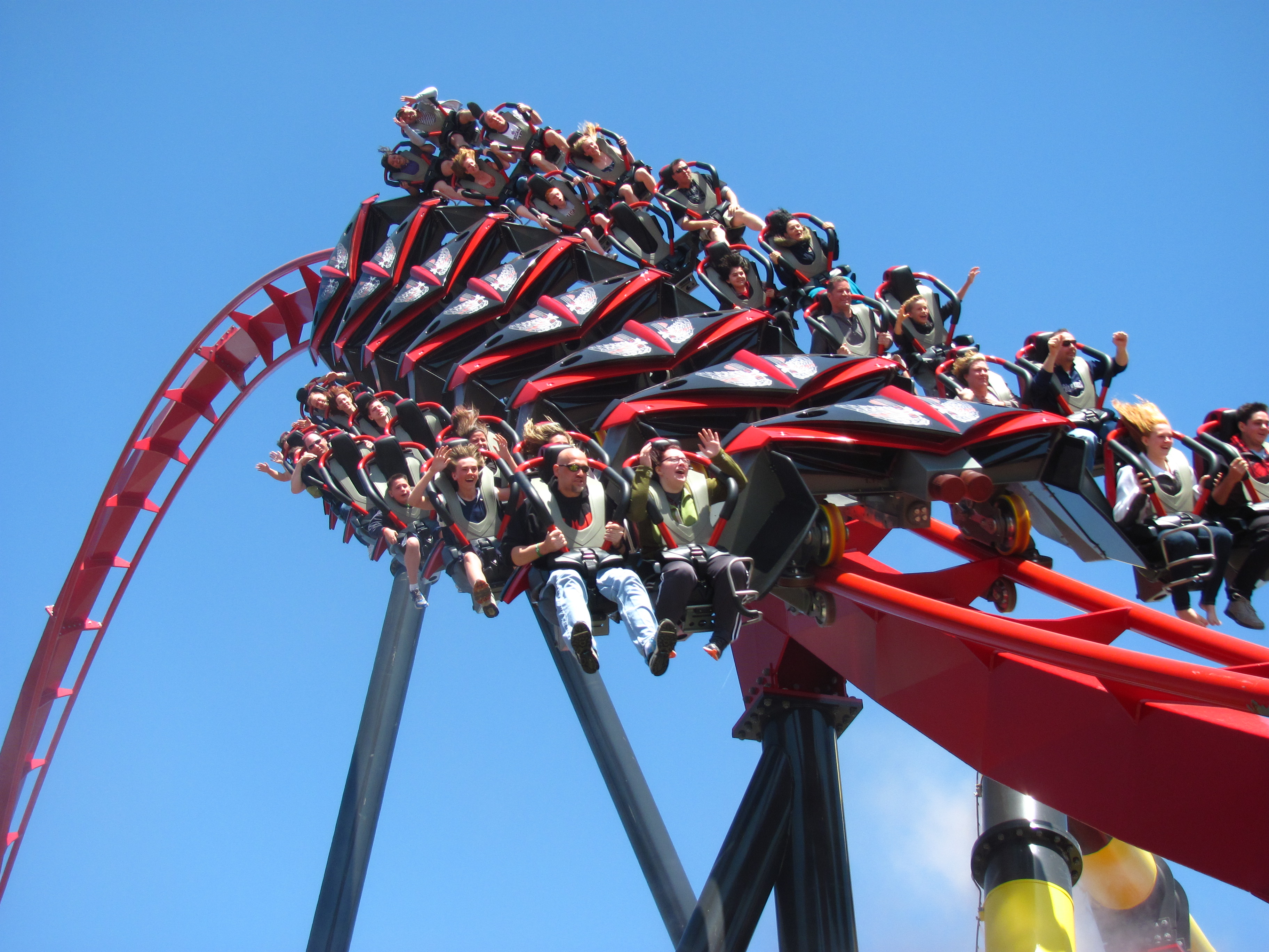 X-Flight